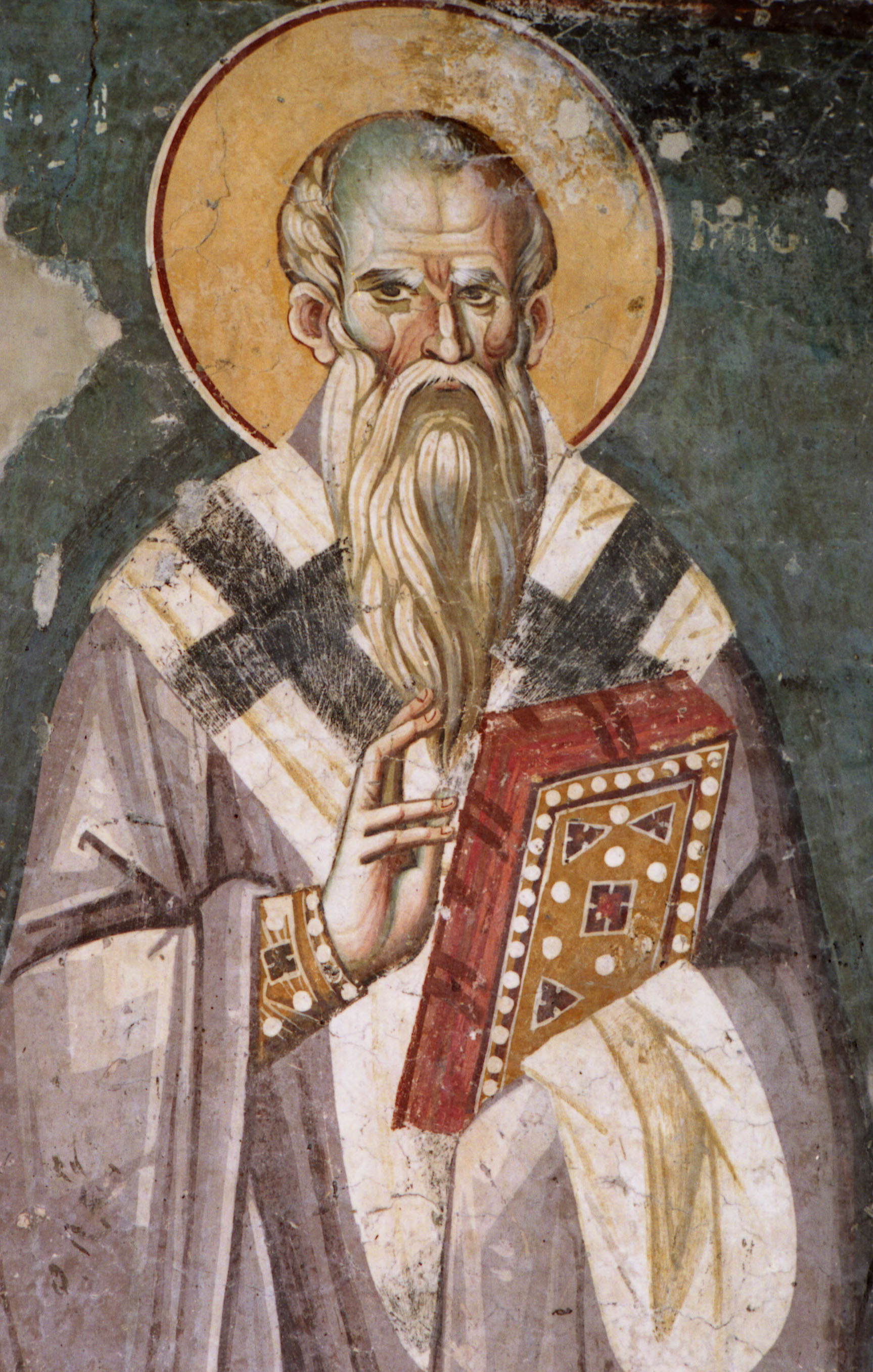 Frescos in the Church of the Theotokos Peribleptos, Оhrid Macedonia